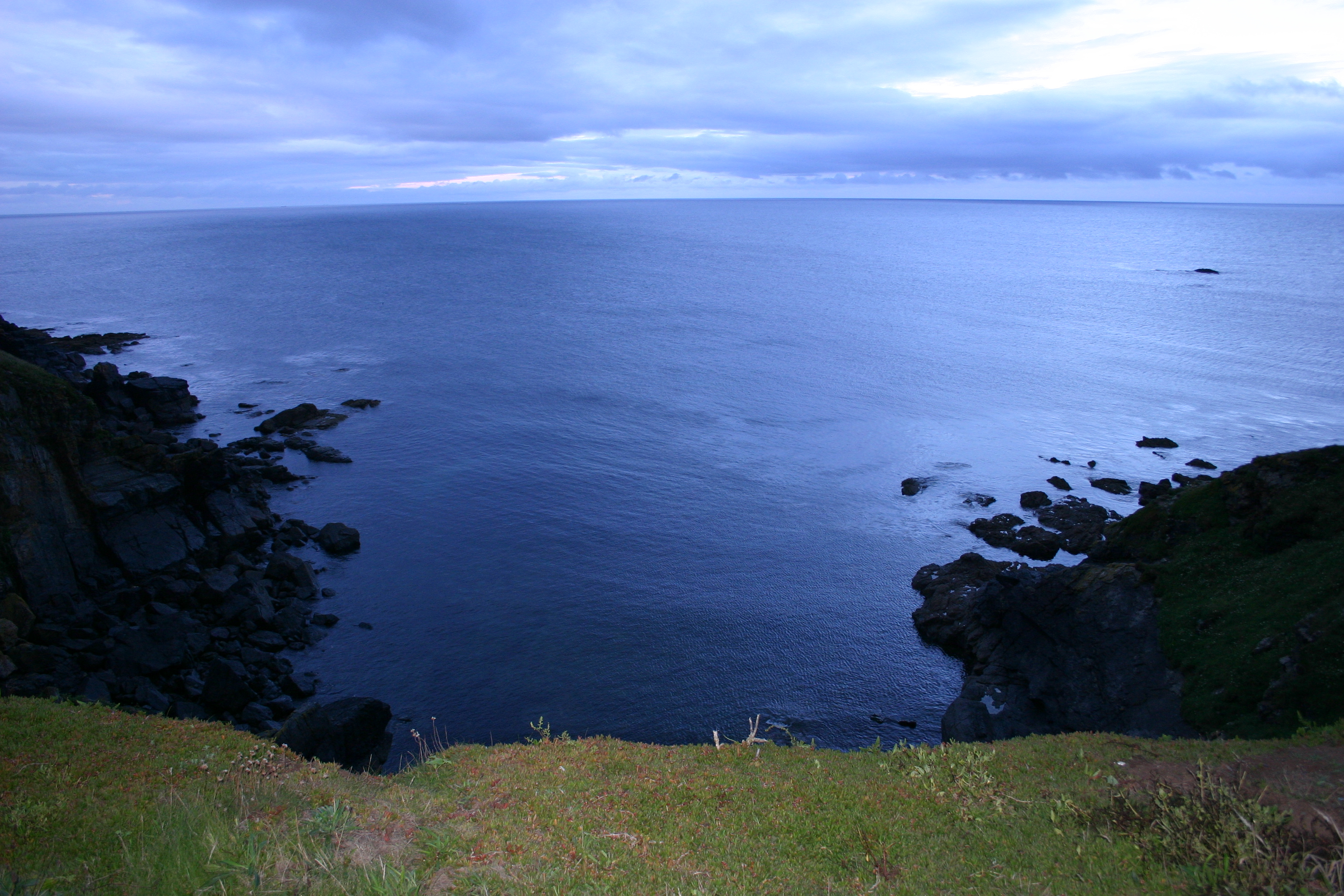 View of the Atlantic Ocean from Lizard Point